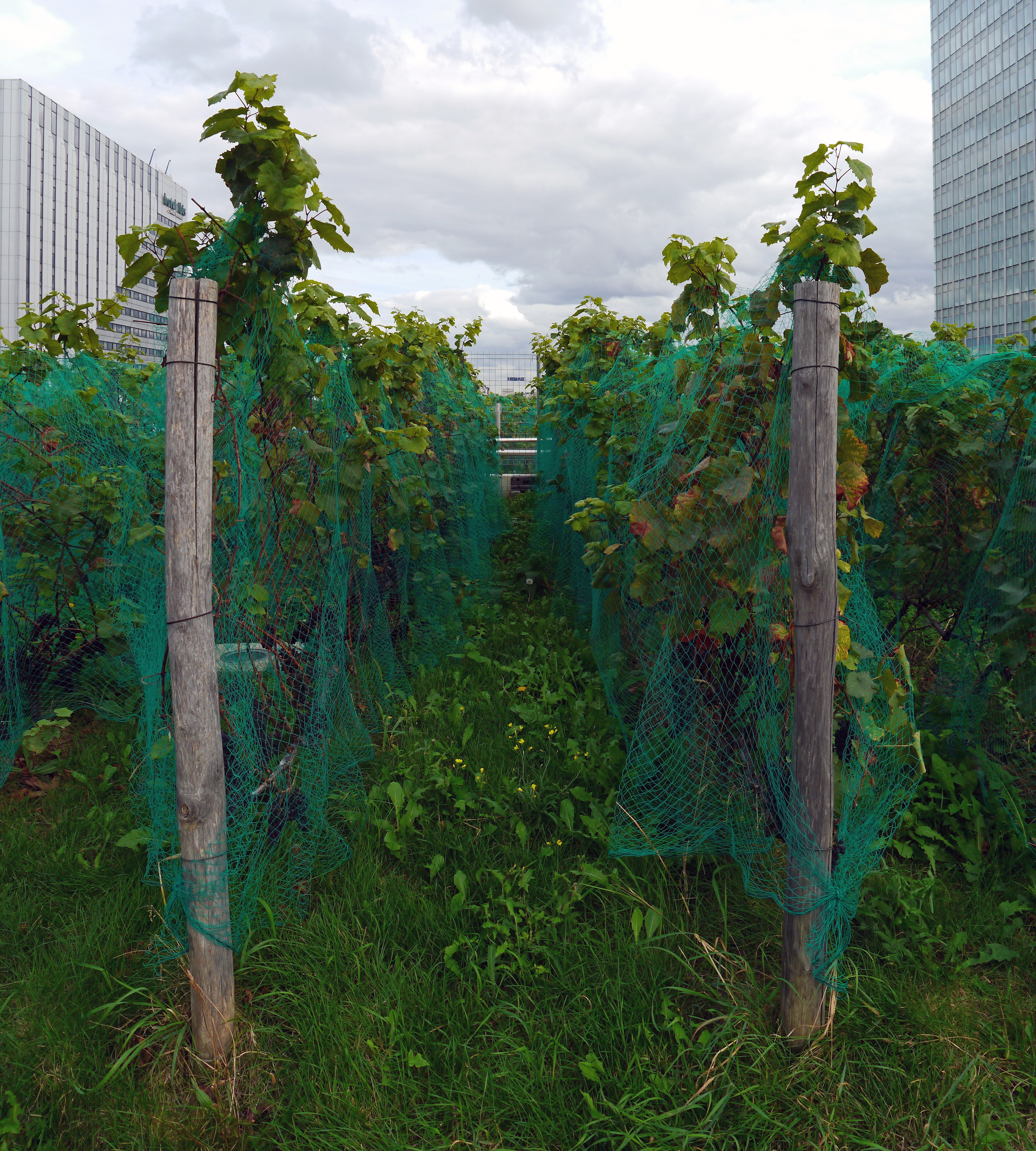 La Défense, France. Clos de Chantecoq.